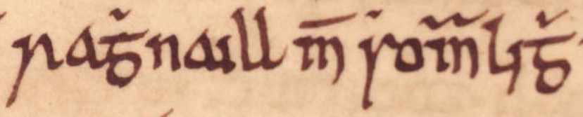 An excerpt from the Annals of Ulster containing the name of Ragnall mac Somairle (died between 1192–1227). This excerpt is from folio 62 verso of MS. Rawl. B. 489. The annal in question refers to an event dated 1212, and concerns a military expedition in which Ragnall's sons were participants.